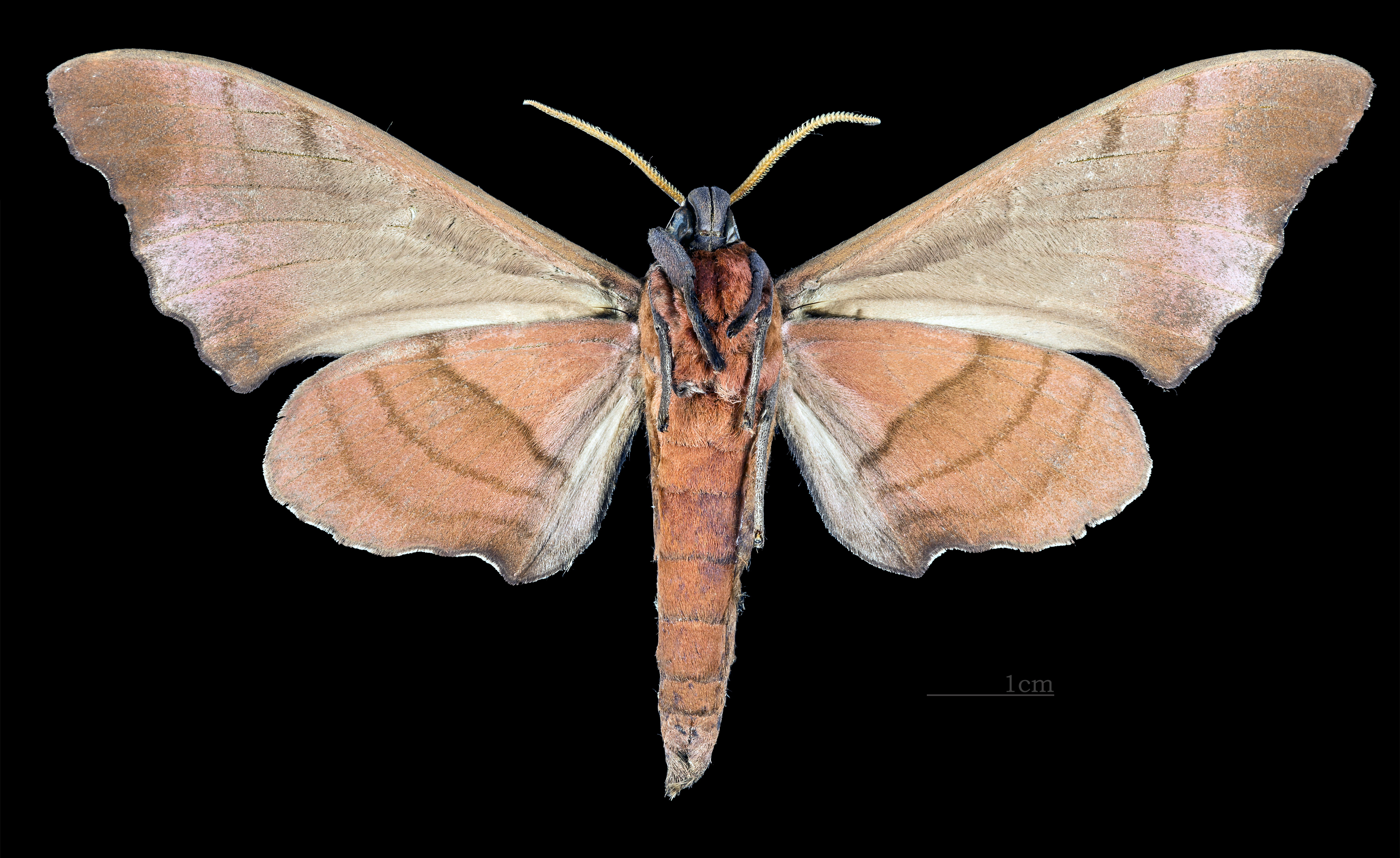 Marumba nympha - △ Ventral side Collection of the Mathematician Laurent Schwartz